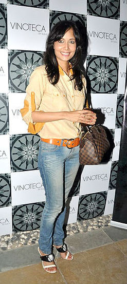 Forest success party